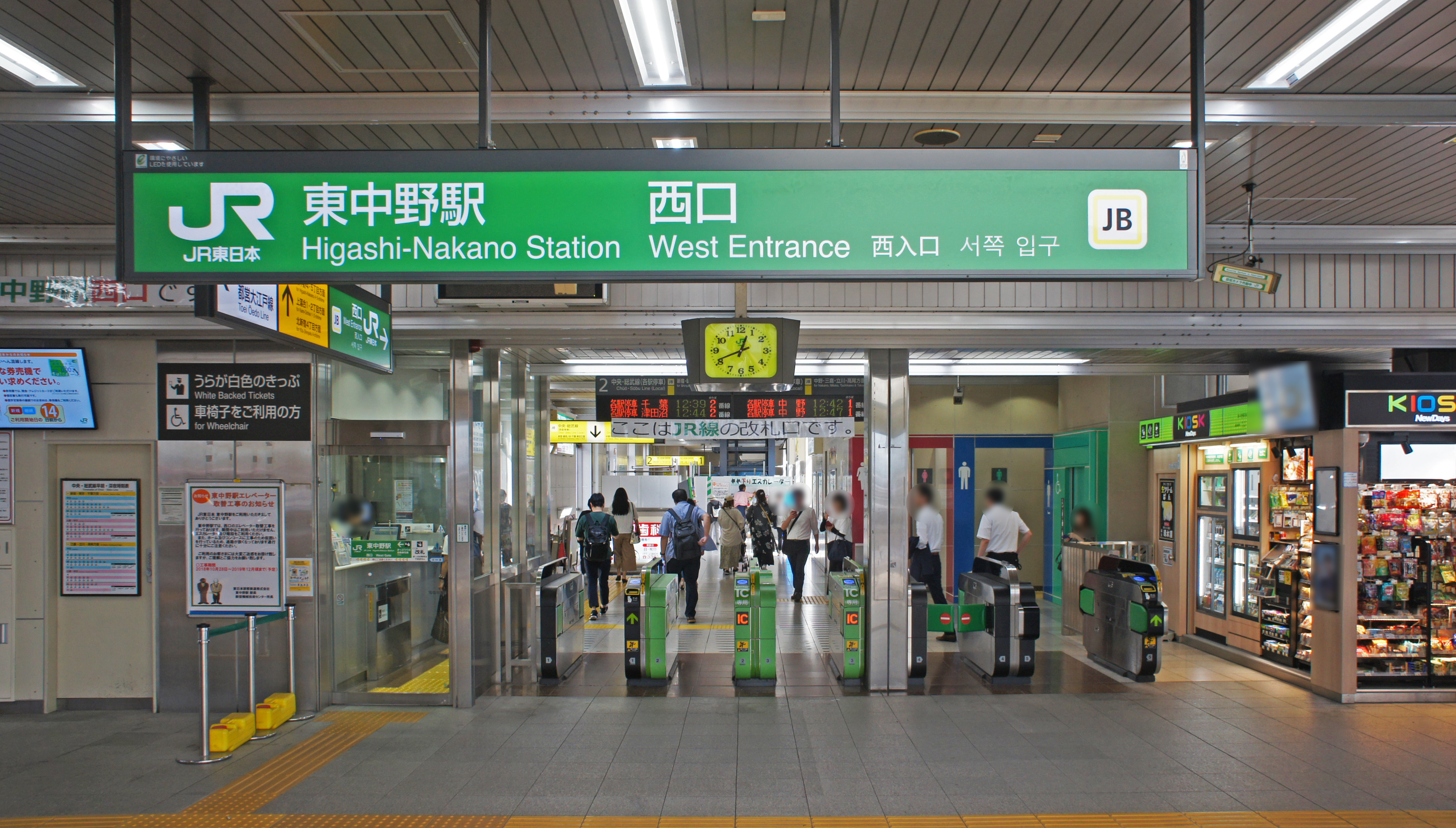 West Gates of JR Chuo-Main-Line Higashi-Nakano Station